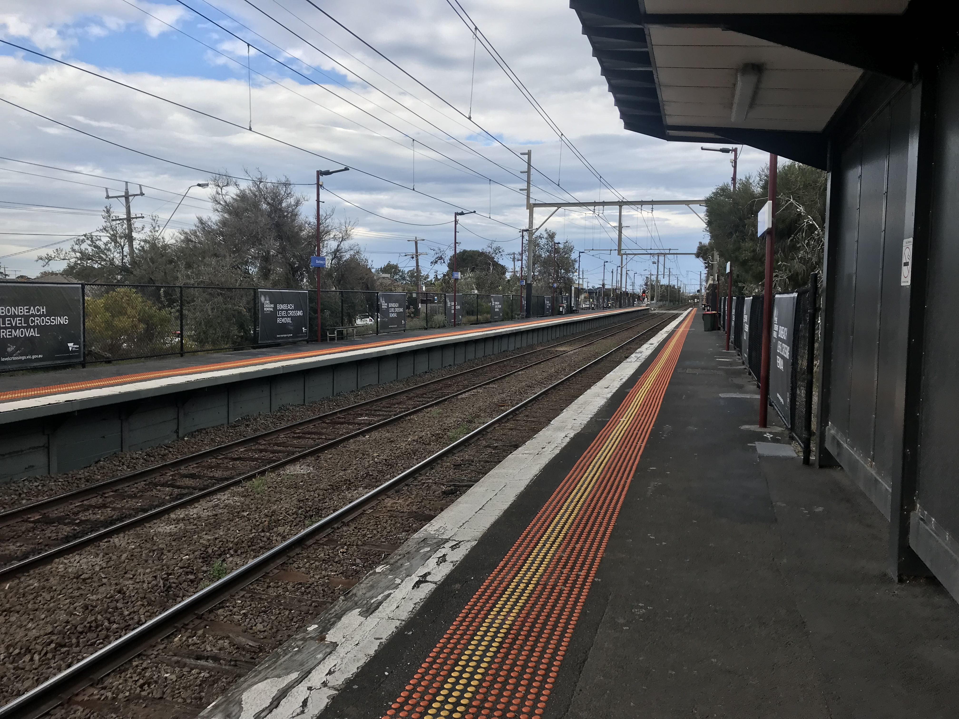 Bonbeach is a train station in Melbourne, Victoria, Australia. This is the view looking south from the far end of platform one.